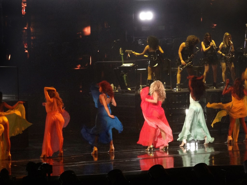 Beyonce performing "Freakum Dress" in Montreal in 2013 during The Mrs. Carter Show World Tour.